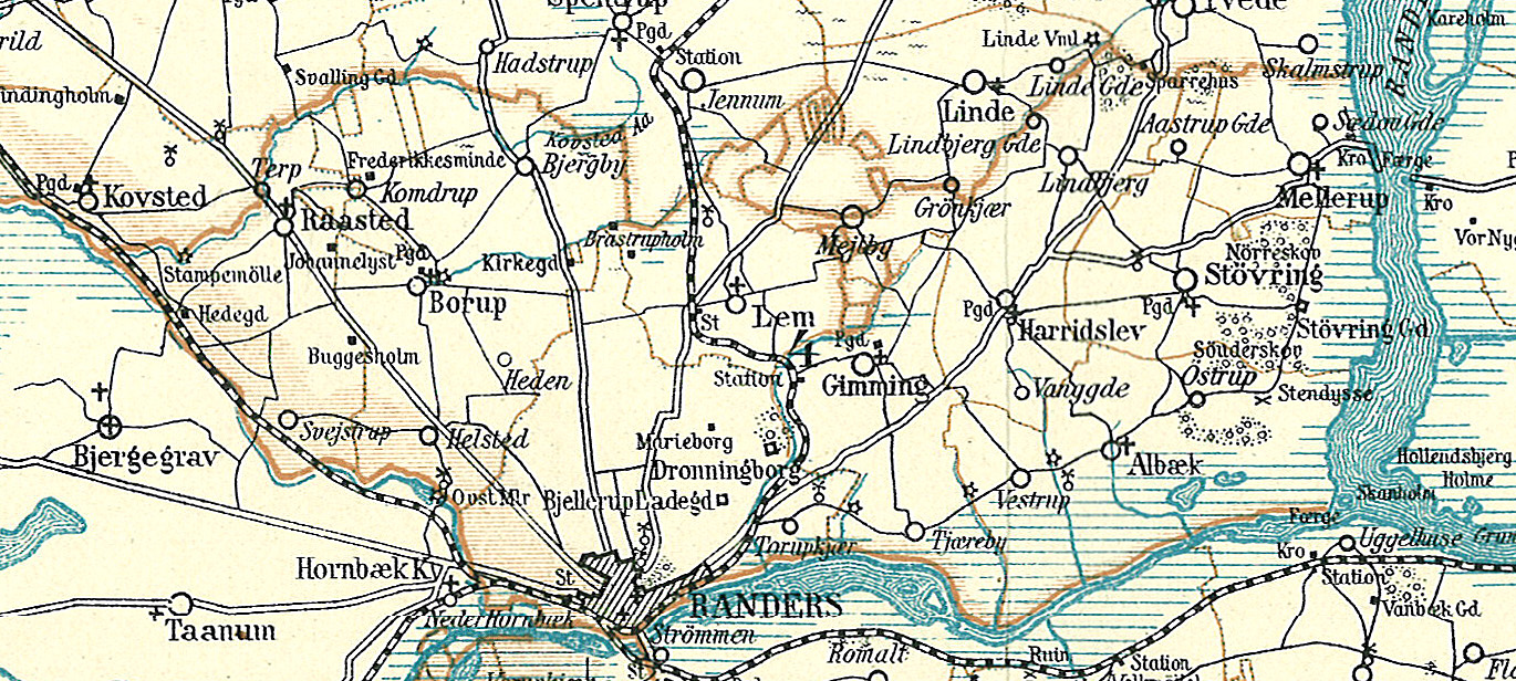 Map of Støvring Herred in the western part of Randers County in Denmark